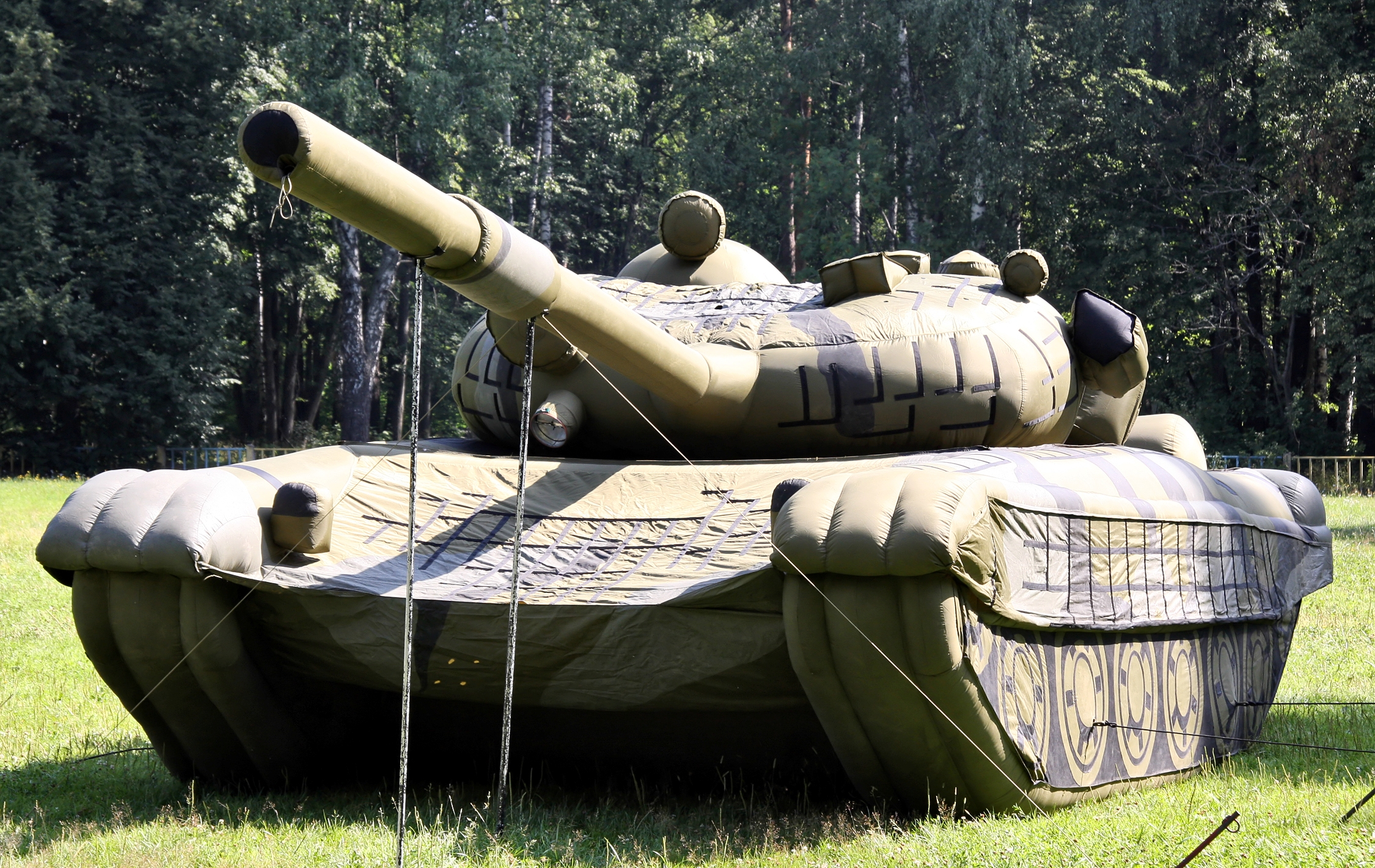 The 45th Separate Engineer-Camouflage Regiment of Russia.